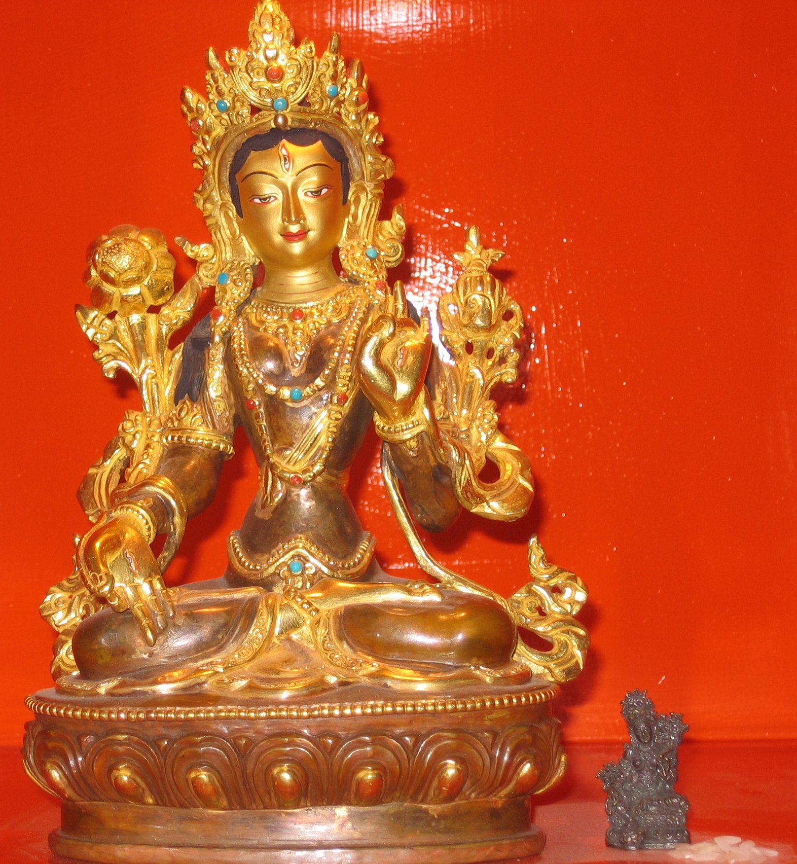 White Tara Buddhist statue. Taken in the shrine room of a Karma Kagyu centre in South London. Uploading here as I don't think Commons accepts photos of statues.